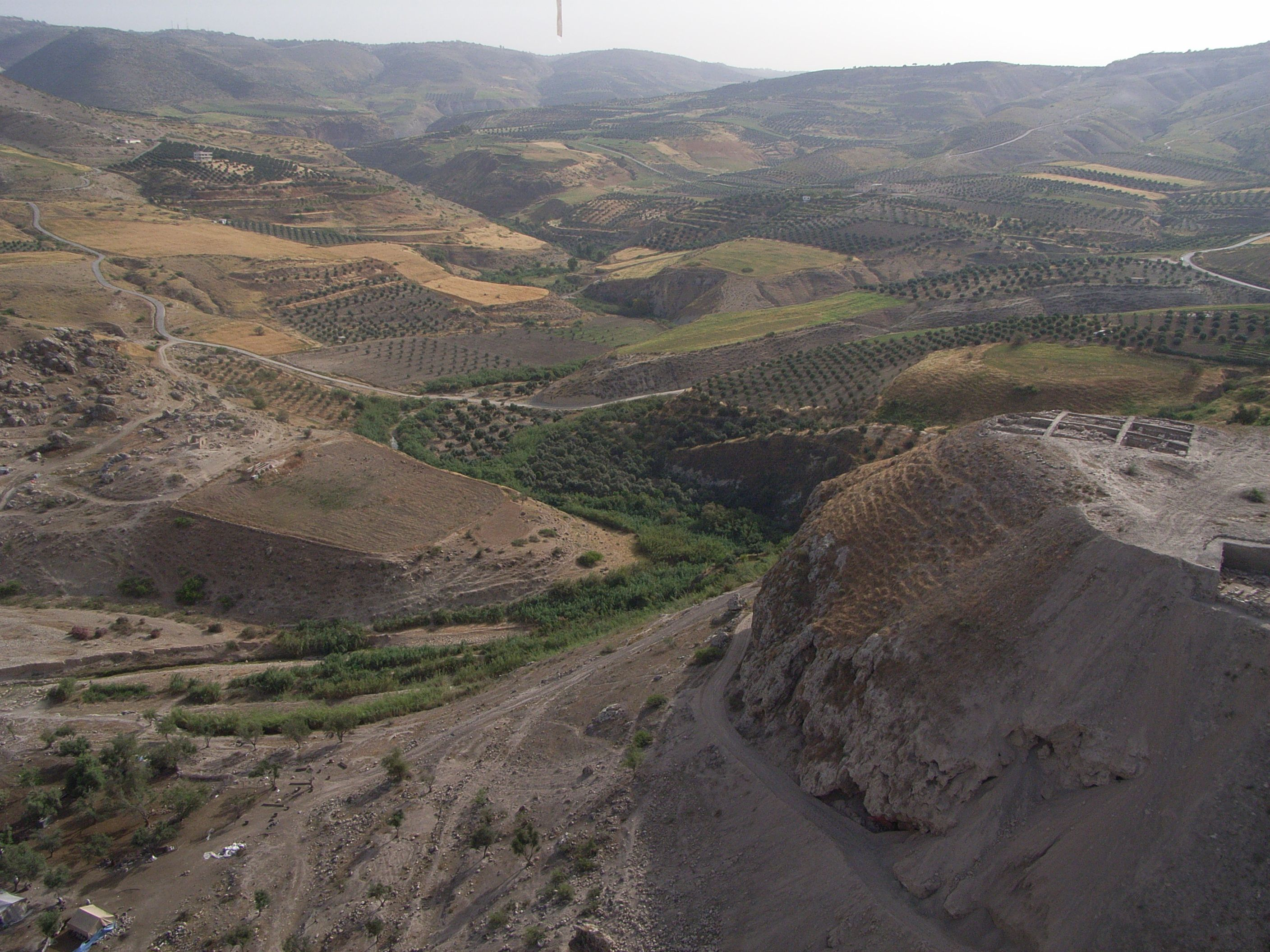 Wadi el-Arab and Tall Ziraa view to ENE